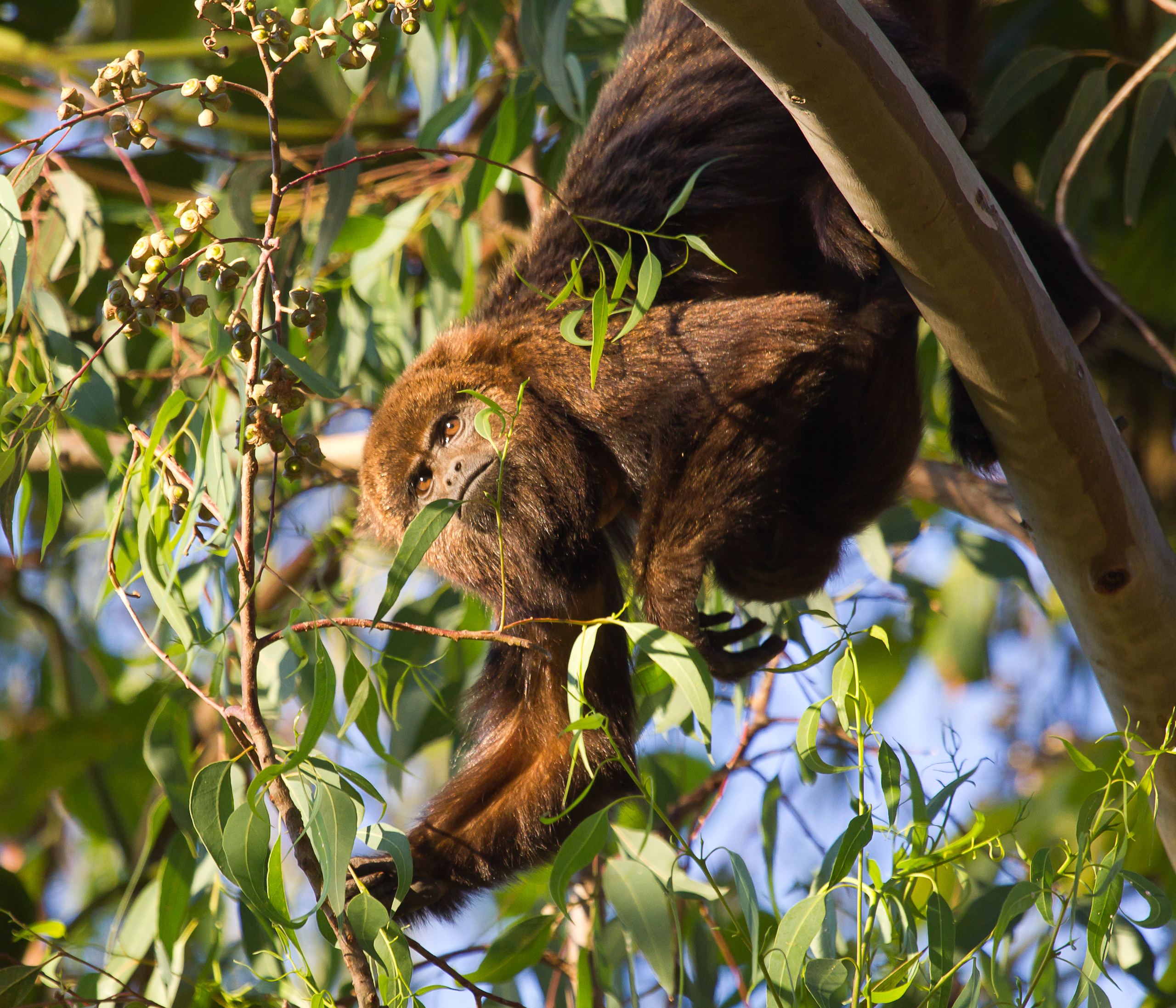 Brown howler monkey (Alouatta guariba clamitans) in Monte Alegre do Sul, São Paulo State, Brazil. Female.